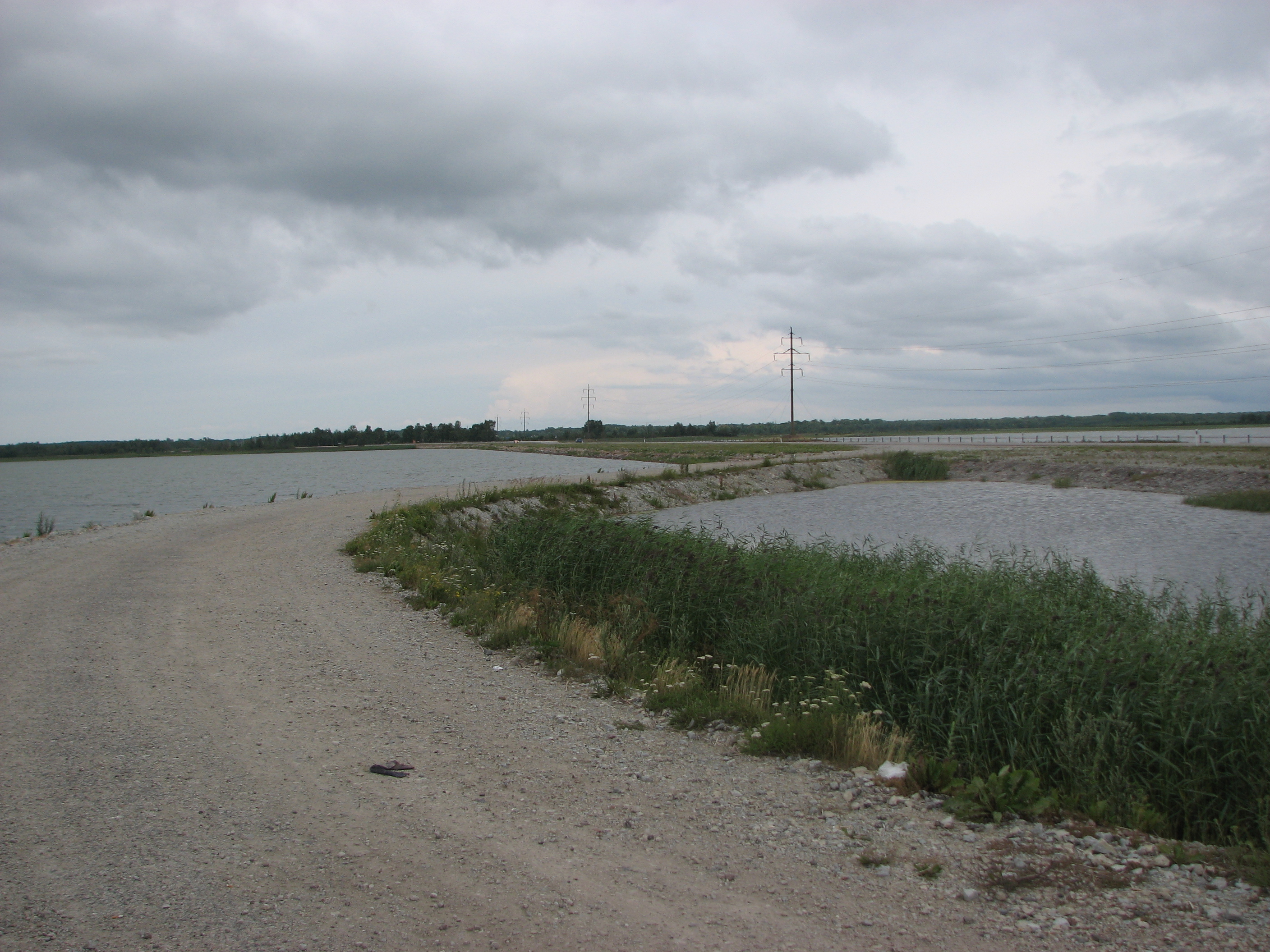 Levee over Small Strait (Väike väin), Estonia